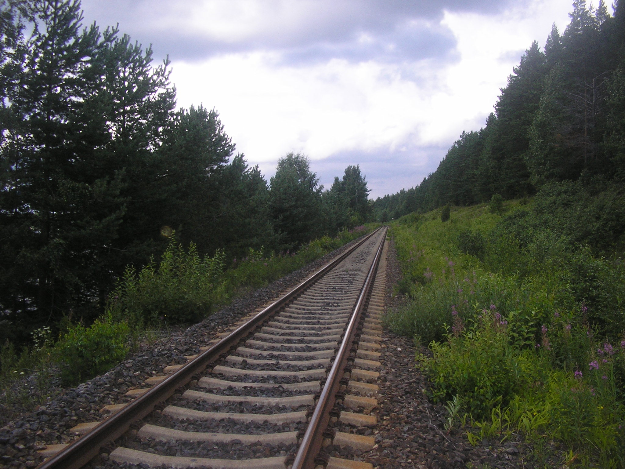 Pieksämäki–Joensuu railway in Liperi, Finland